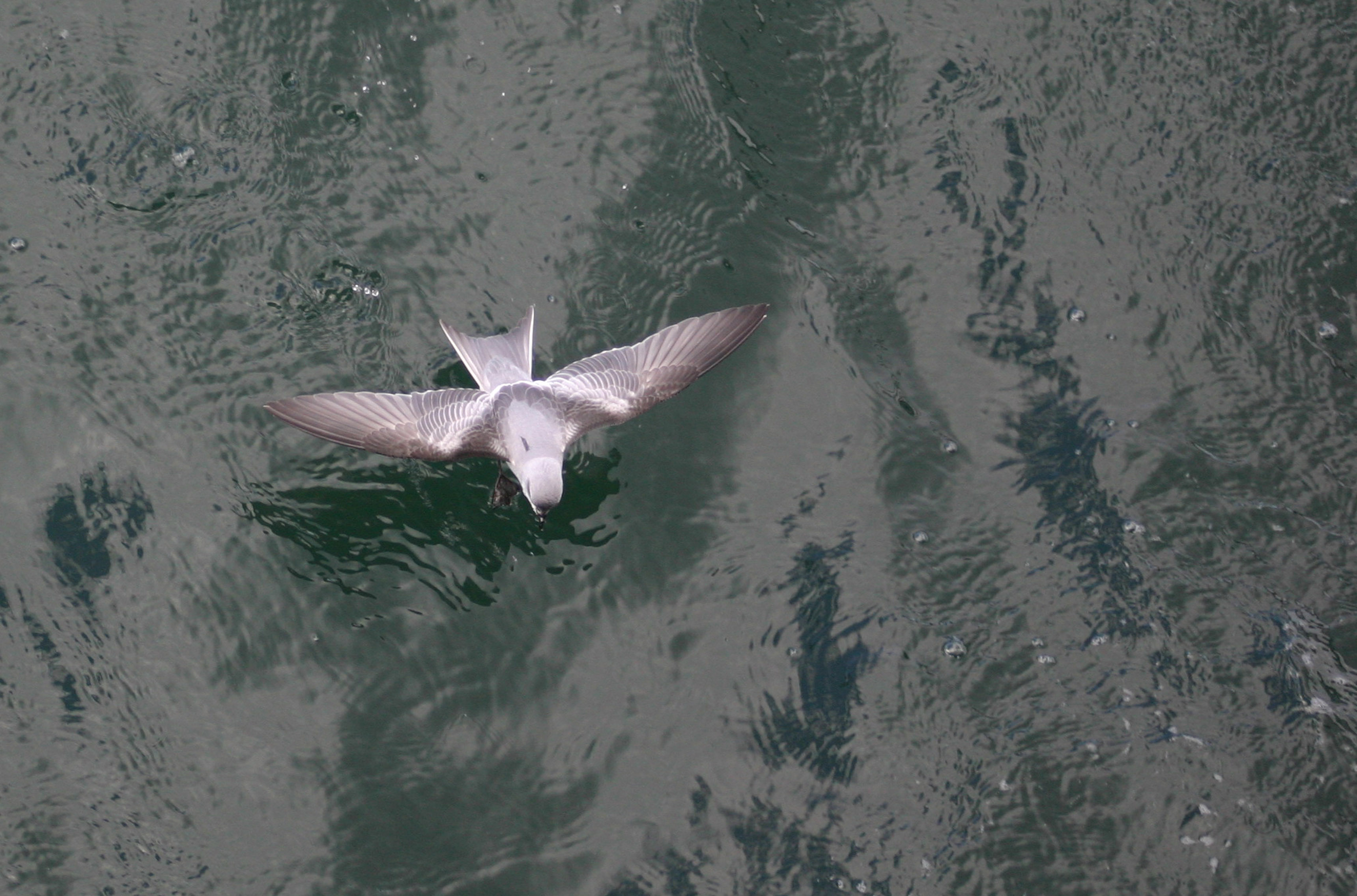 Fork-tailed Storm-Petrel (Oceanodroma furcata), Alaska Maritime National Wildlife Refuge